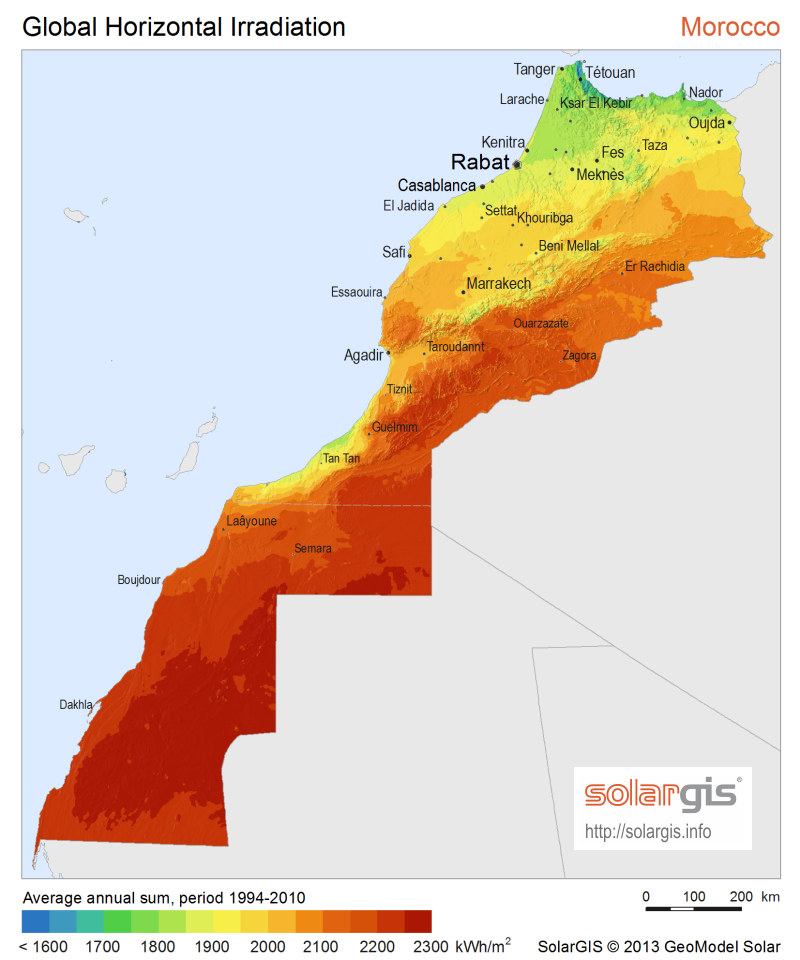 Solar Radiation Map: Global Horizontal Irradiation Map of Morocco, SolarGIS.